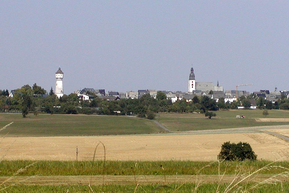 Photo of Kirchberg, Rhineland-Palatinate, Germany